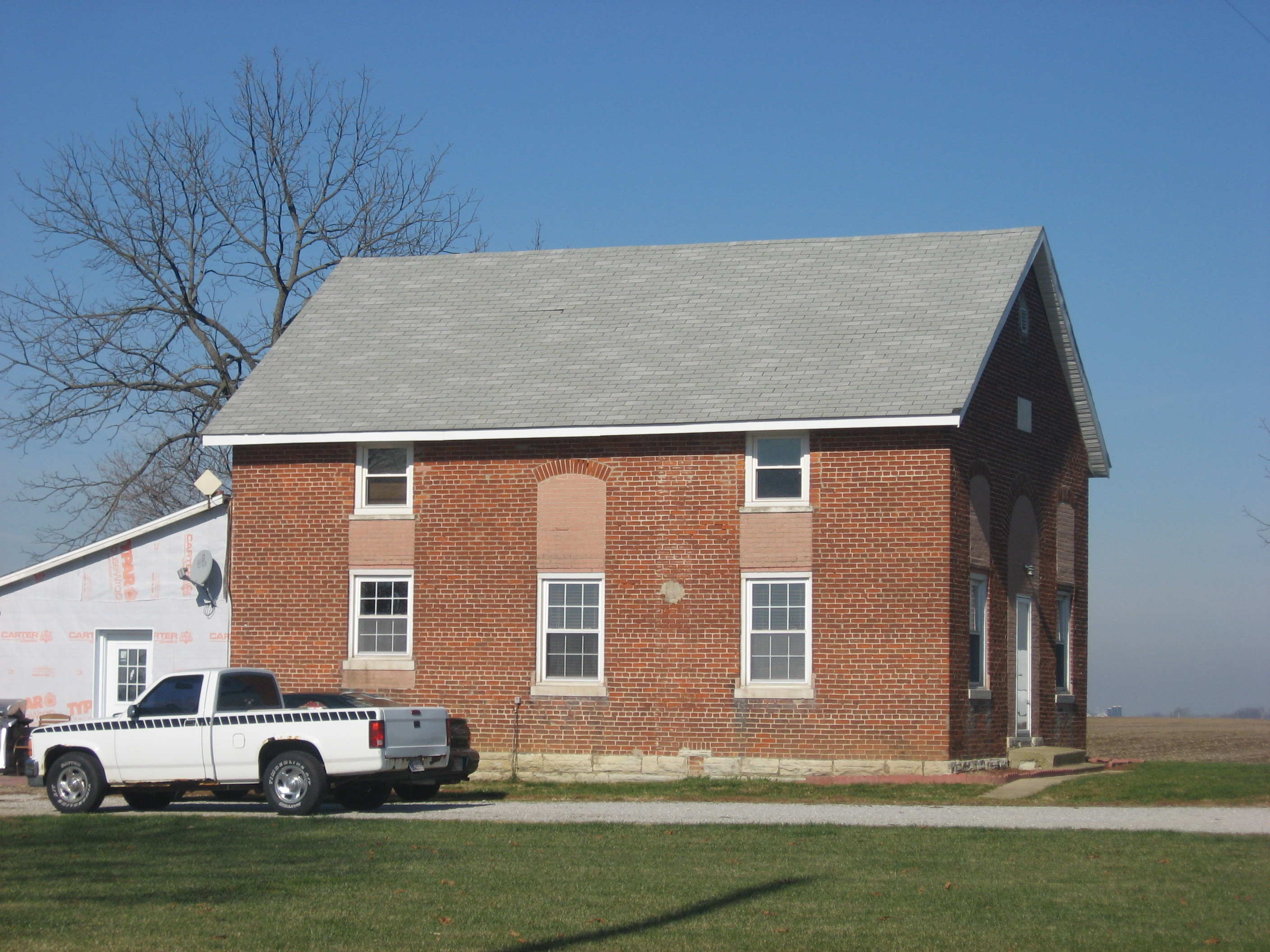 Southern side and front of the former Jackson Township District 5 School, located on the northwestern corner of the junction of N85W and W300N in Jackson Township, Rush County, Indiana, United States. It was built in 1889.